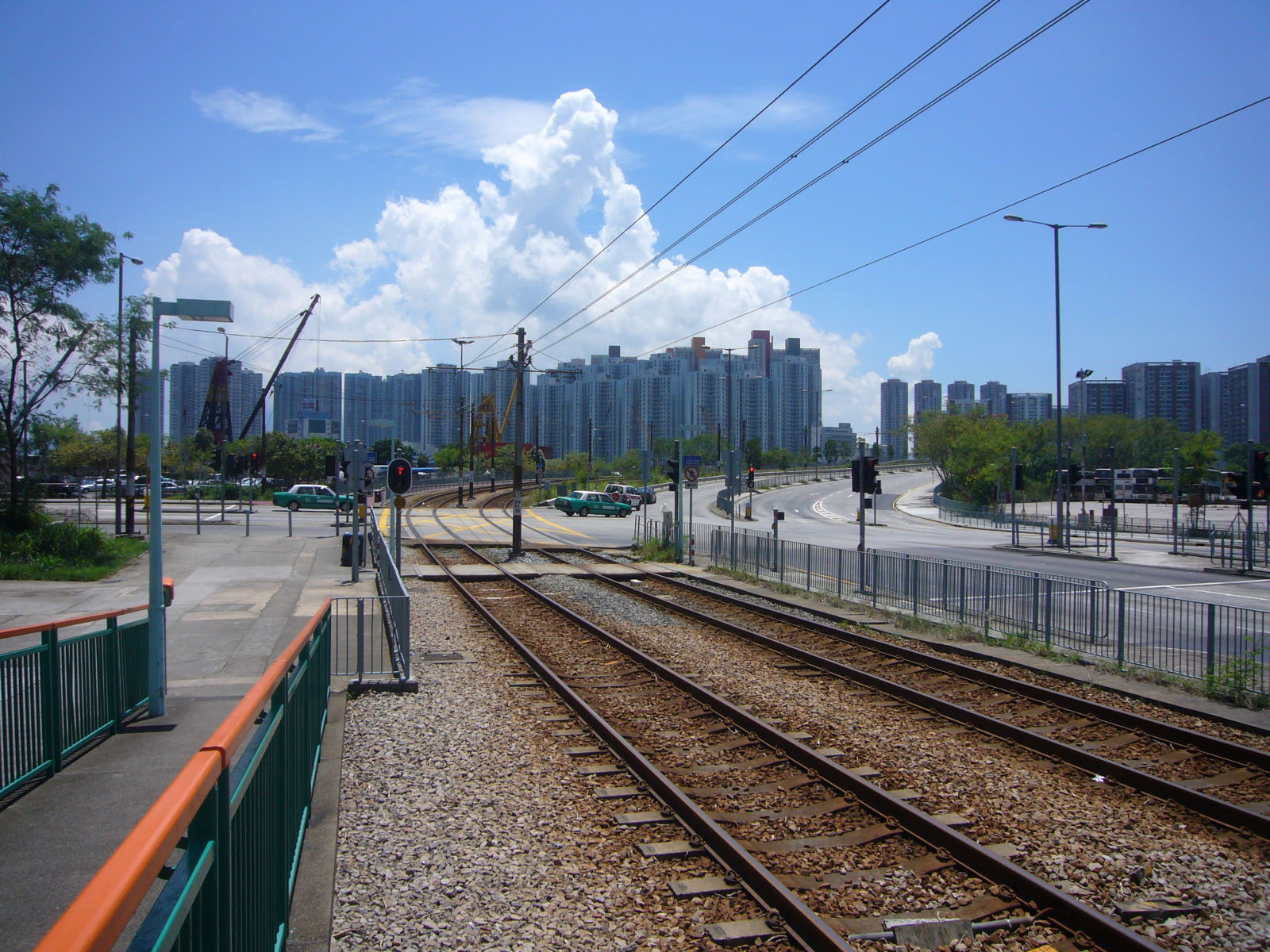 LRT Tuen Mun Swimming Pool Stop, MTR HK